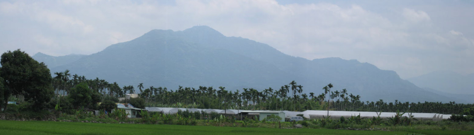 Panoramic view of Jijidashan from Linwei.Jijidashan means the big mountain of Jiji in Jiji Township,Nantou County.It has a height of 1,392m(4,567ft).